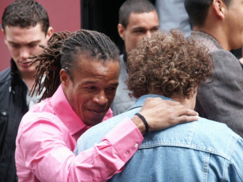 Thomas Vermaelen, Edgar Davids, Gregory van der Wiel. Back of the head of David Endt.